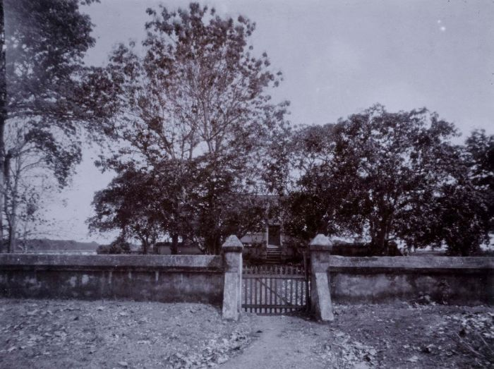 Maulana Yusuf's grave, Pakalangan